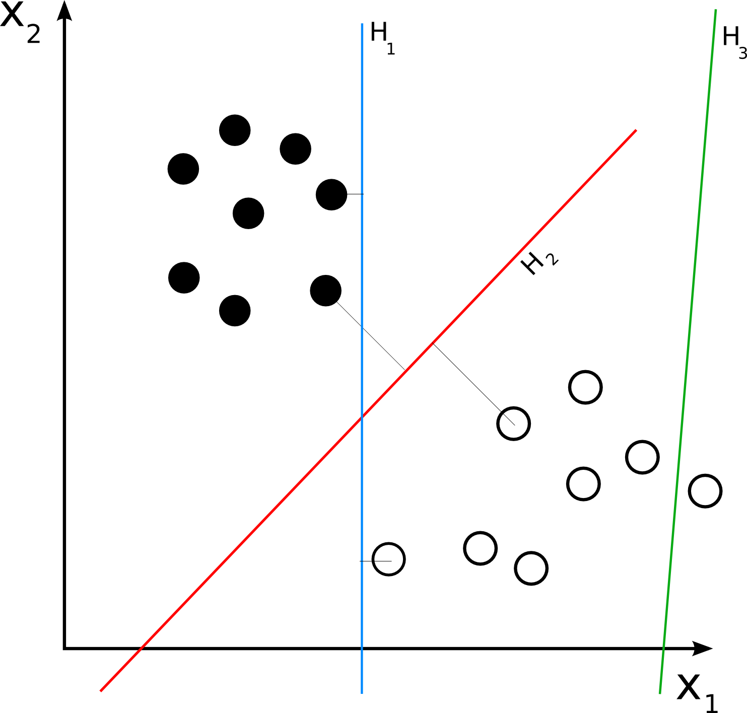 Graphic showing 3 Hyperplanes in 2D. H3 doesn't separate the 2 classes. H1 does, with a small margin and H2 with the maximum margin.